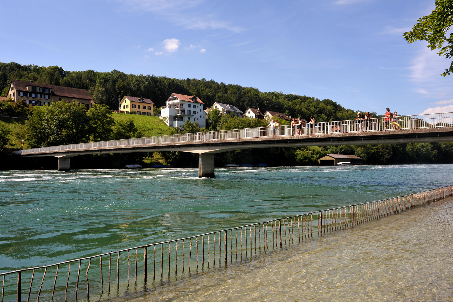 Footbridge over the Rhine between Dachsen and Nohl; Zurich, Switzerland.